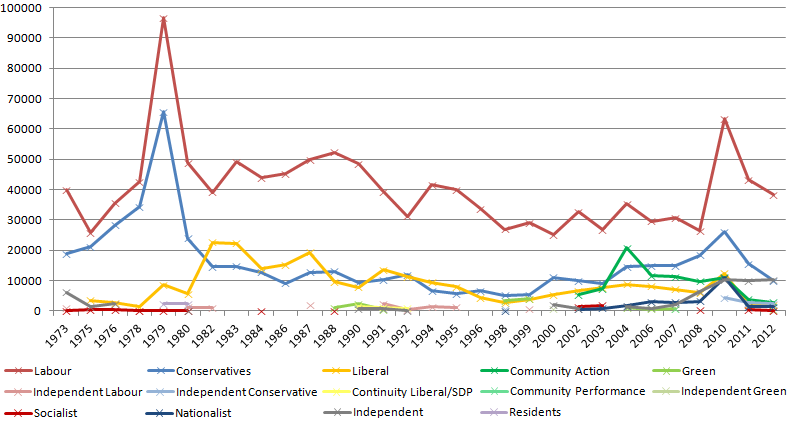 Total votes for Wigan local elections between 1973 and 2012